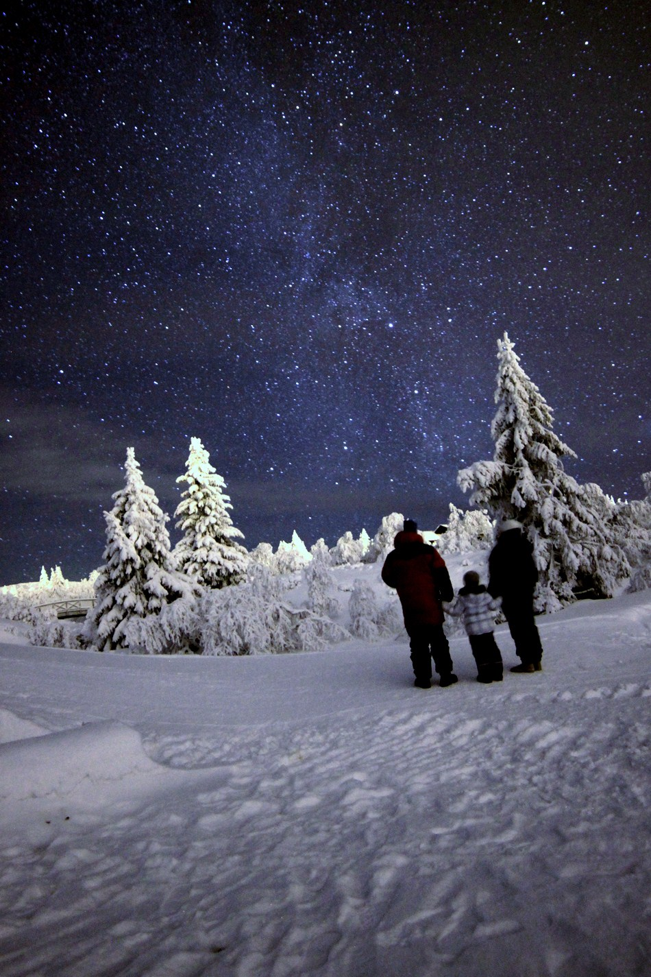 Staring at the Milkyway galaxy in Trysil,Norway with my wife and daughter